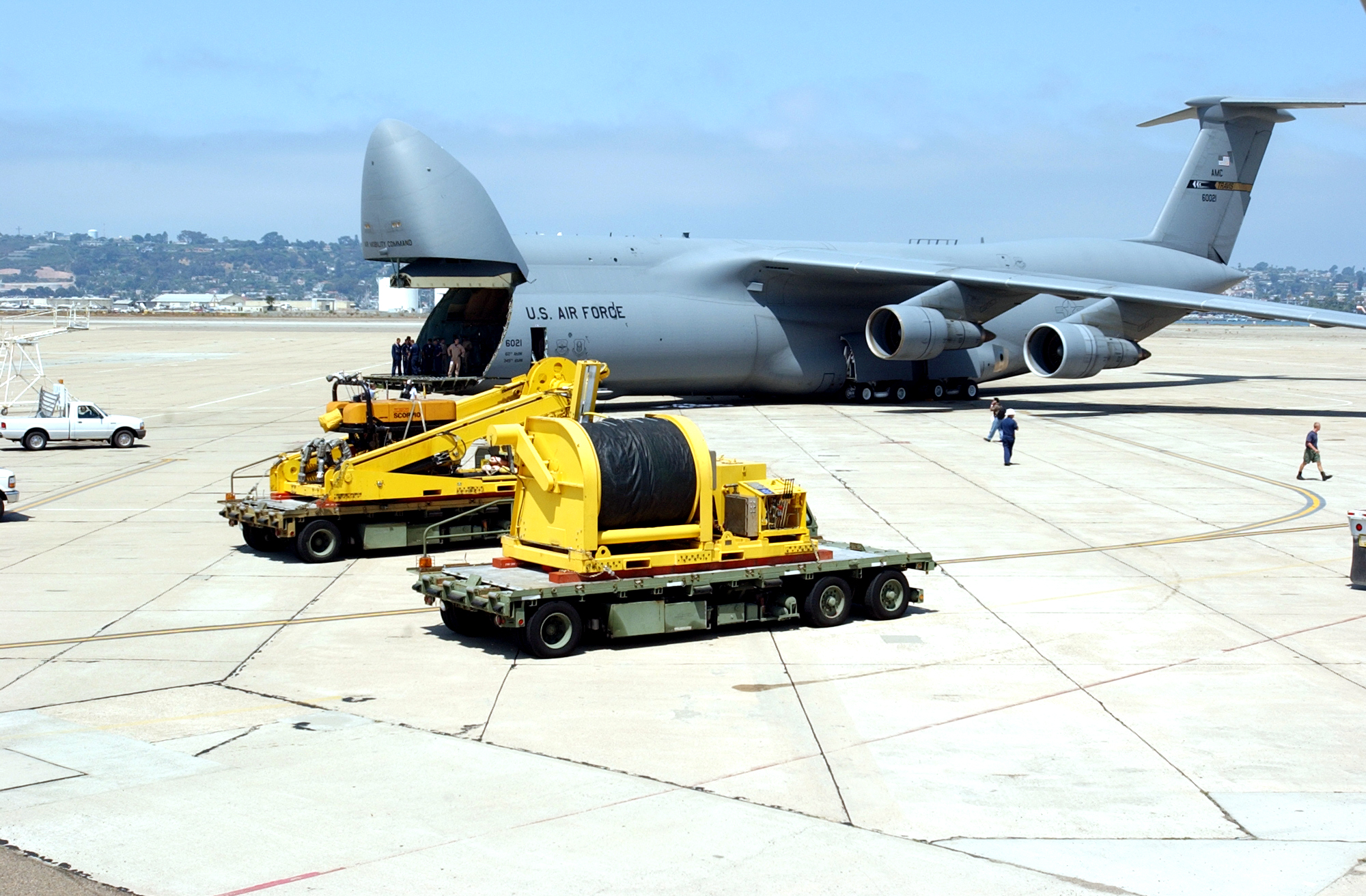 AMC answers call to help rescue Russian sailors — SAN DIEGO -- A C-5 Galaxy assigned to Travis Air Force Base, Calif., is loaded with people and equipment from the Deep Submergence Unit, Naval Base Coronado. The C-5 is bringing two Super Scorpio robotic rescue vehicles to Russia to assist in the rescue of seven Russian sailors trapped in a minisubmarine off the Kamchatka Peninsula. (Original description)